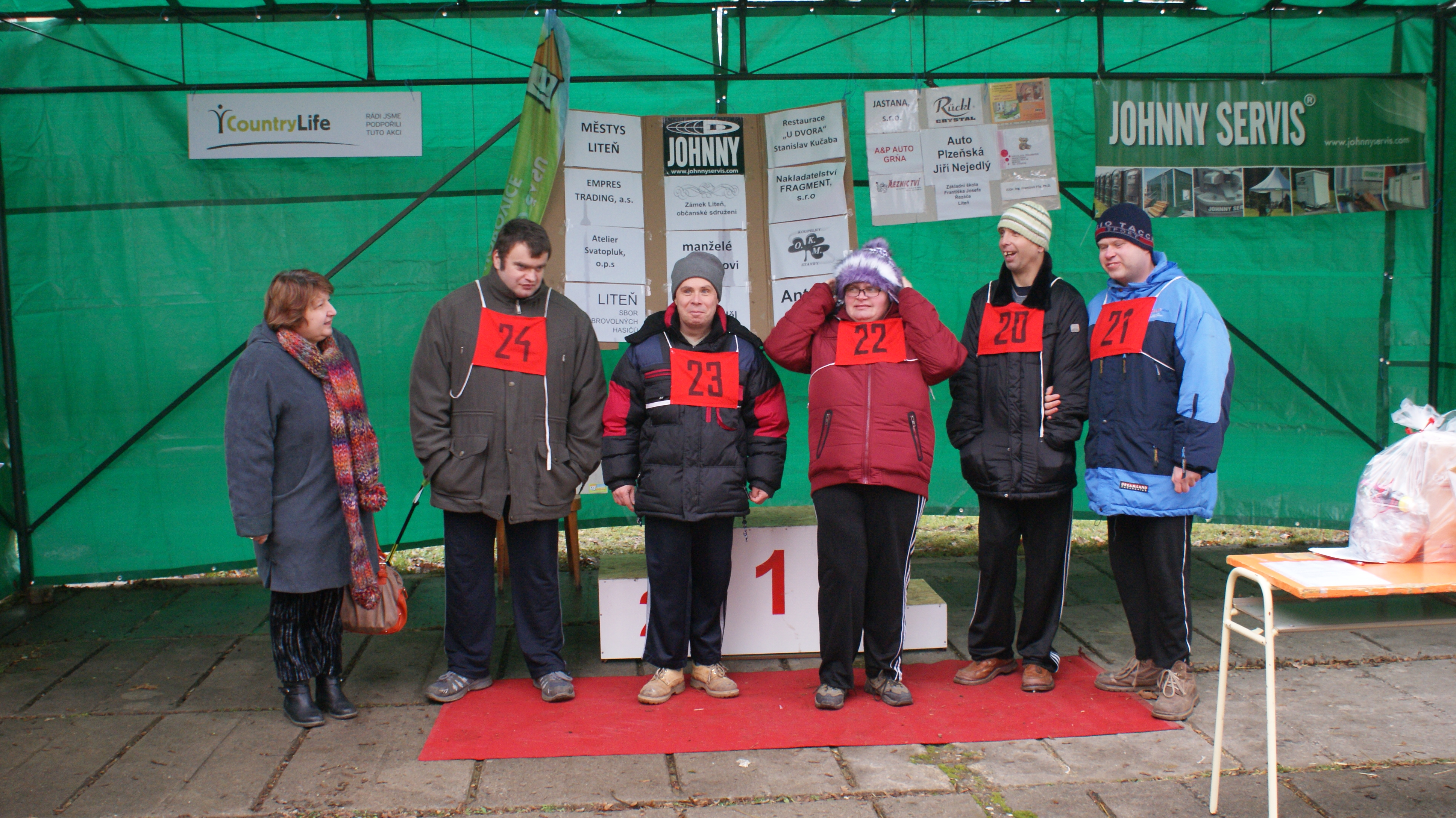 Liteň - running race